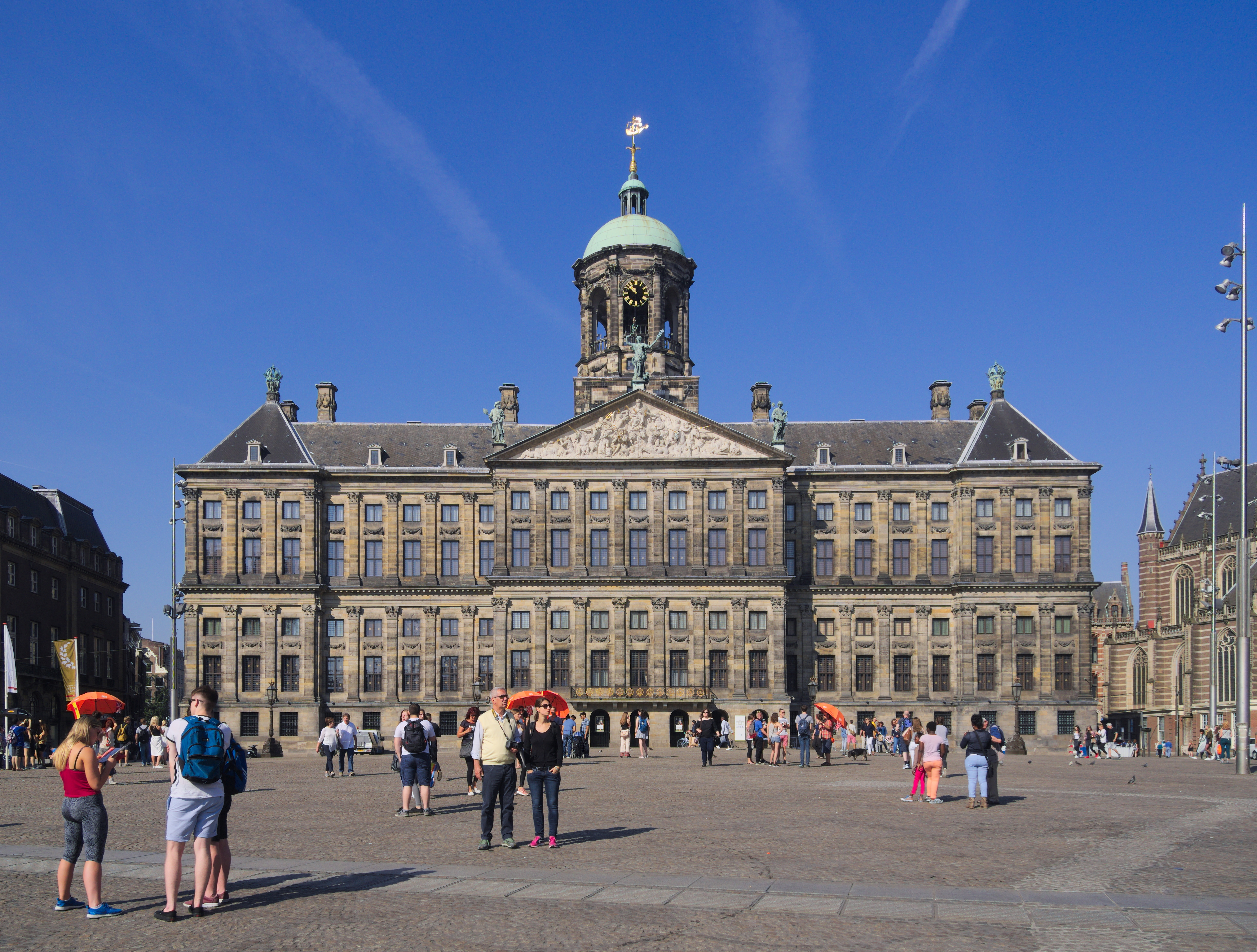 The royal palace of Amsterdam, as seen from Dam square.